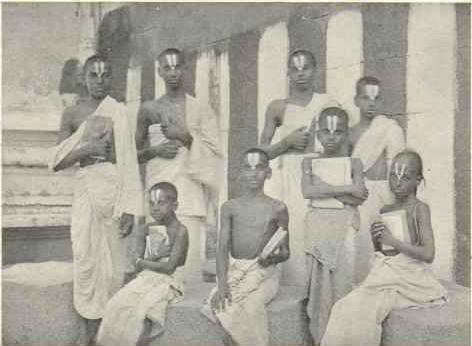 Iyengar students of a gurukulam in Tanjore